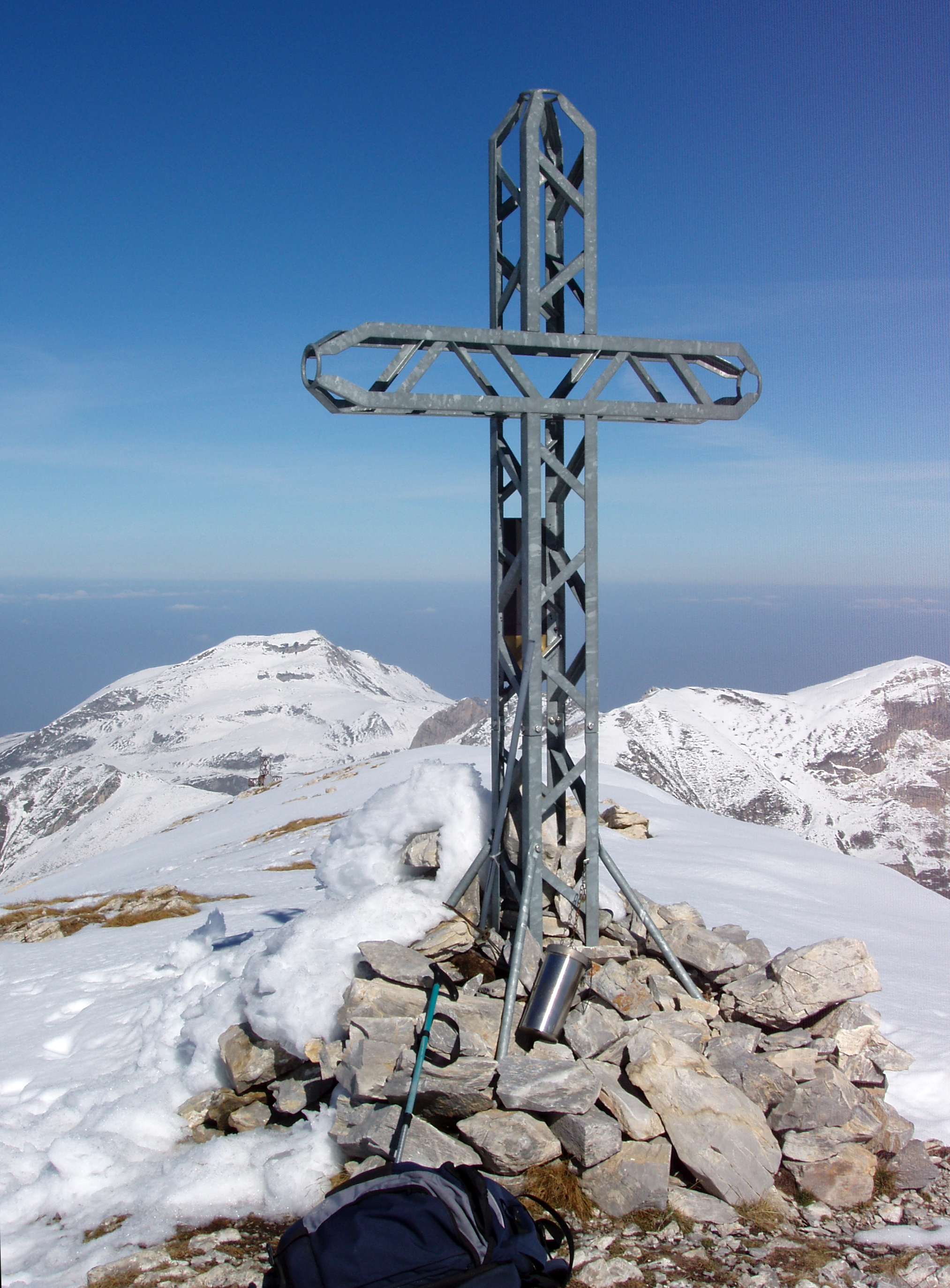 Cima delle Saline (Ligurian Alps) - summit cross